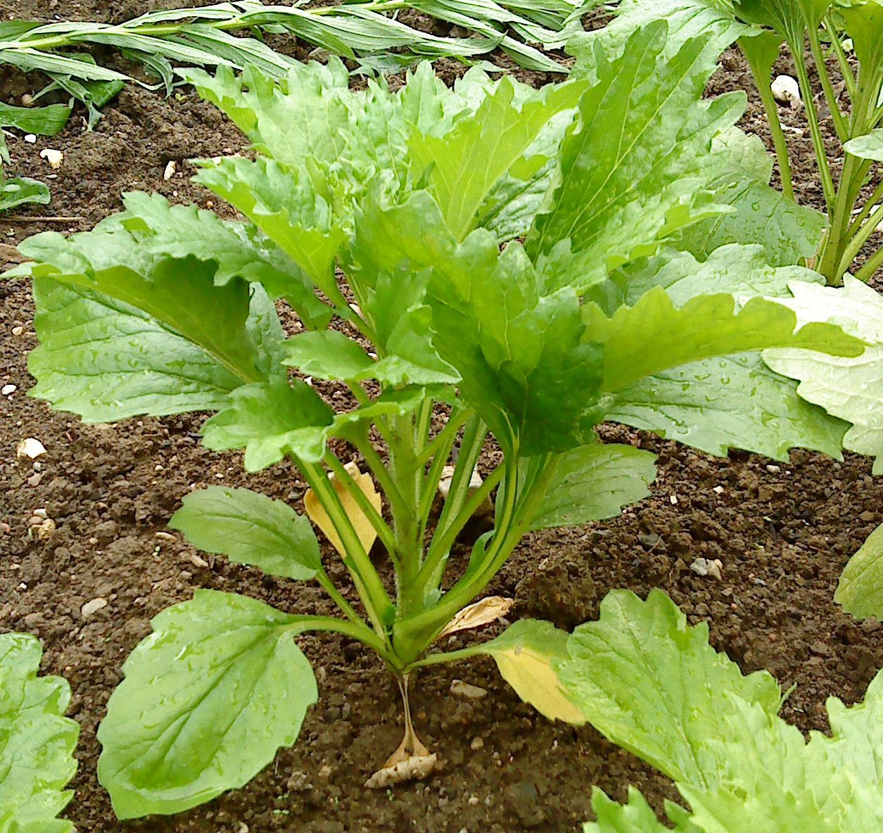 China Aster (Callistephus chinensis)